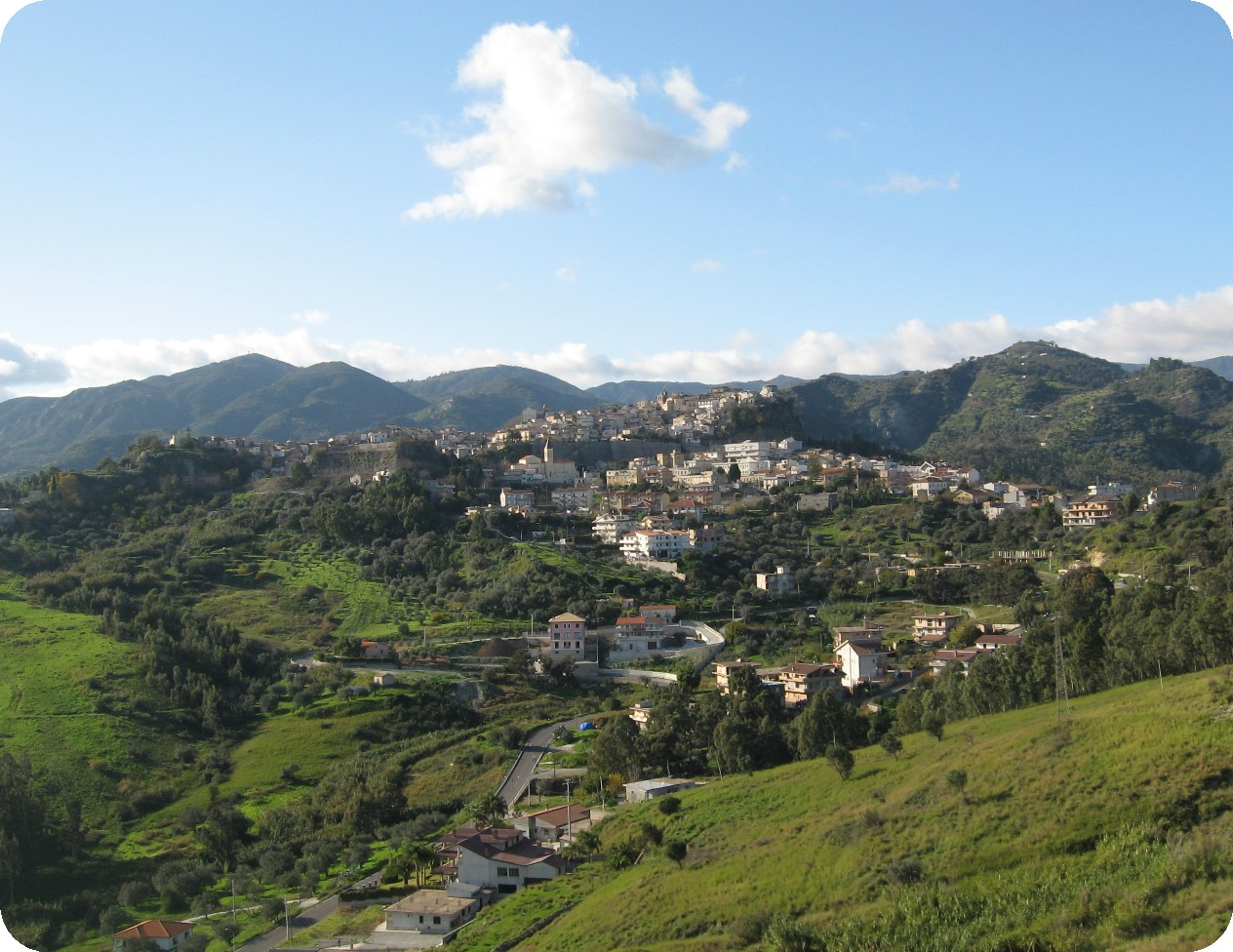 Landscape of Caulonia (RC) - Italy